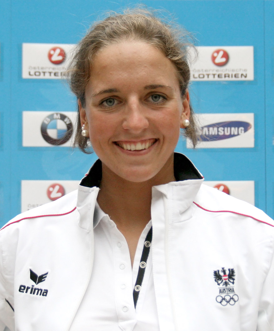 Swimmer Nina Dittrich at the hand-out of the Austrian teams official attire for the 2012 Summer Olympics in London (Marriott, Vienna).